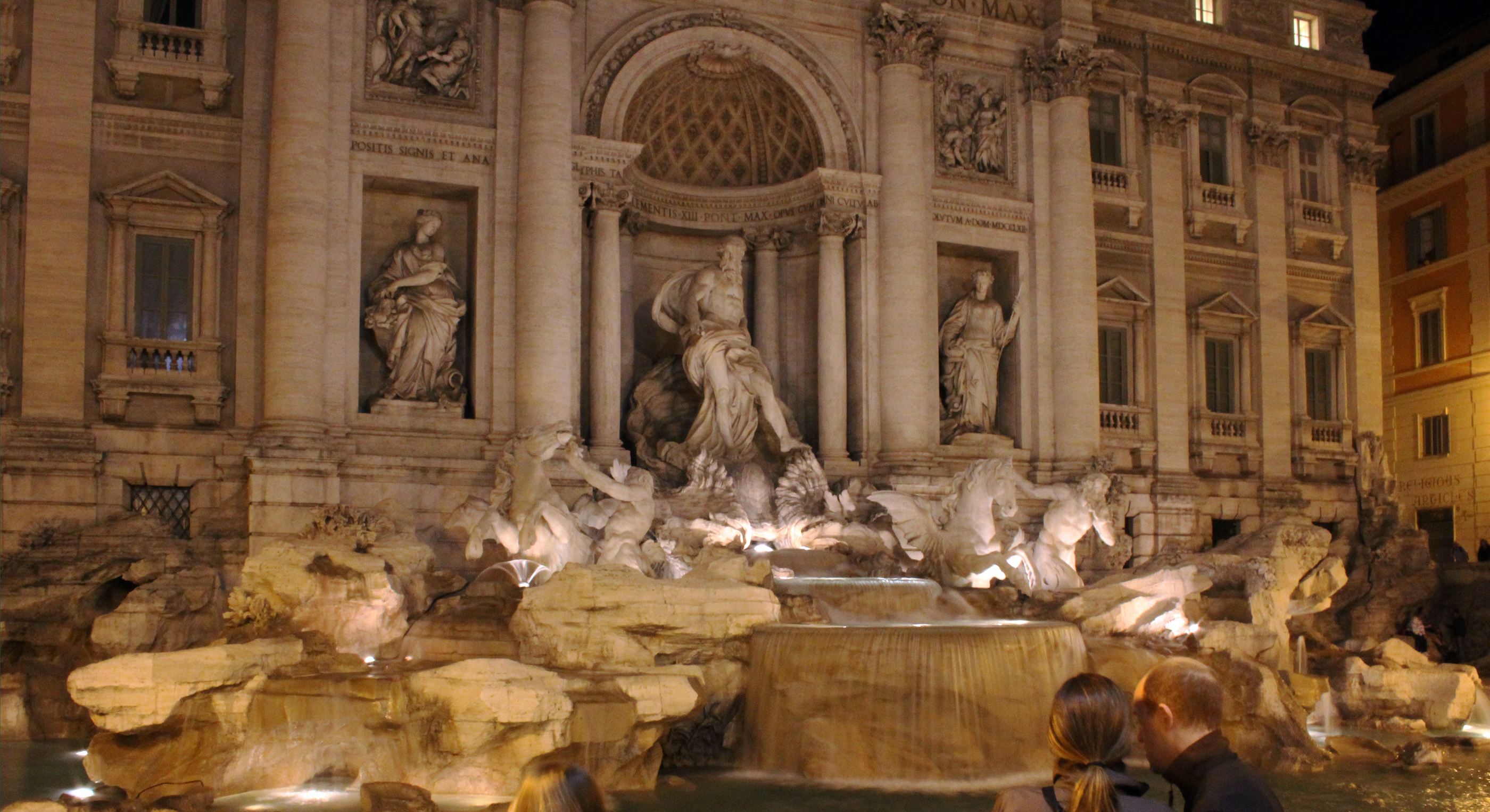 Night image of Trevi Fountain, Rome, Italy